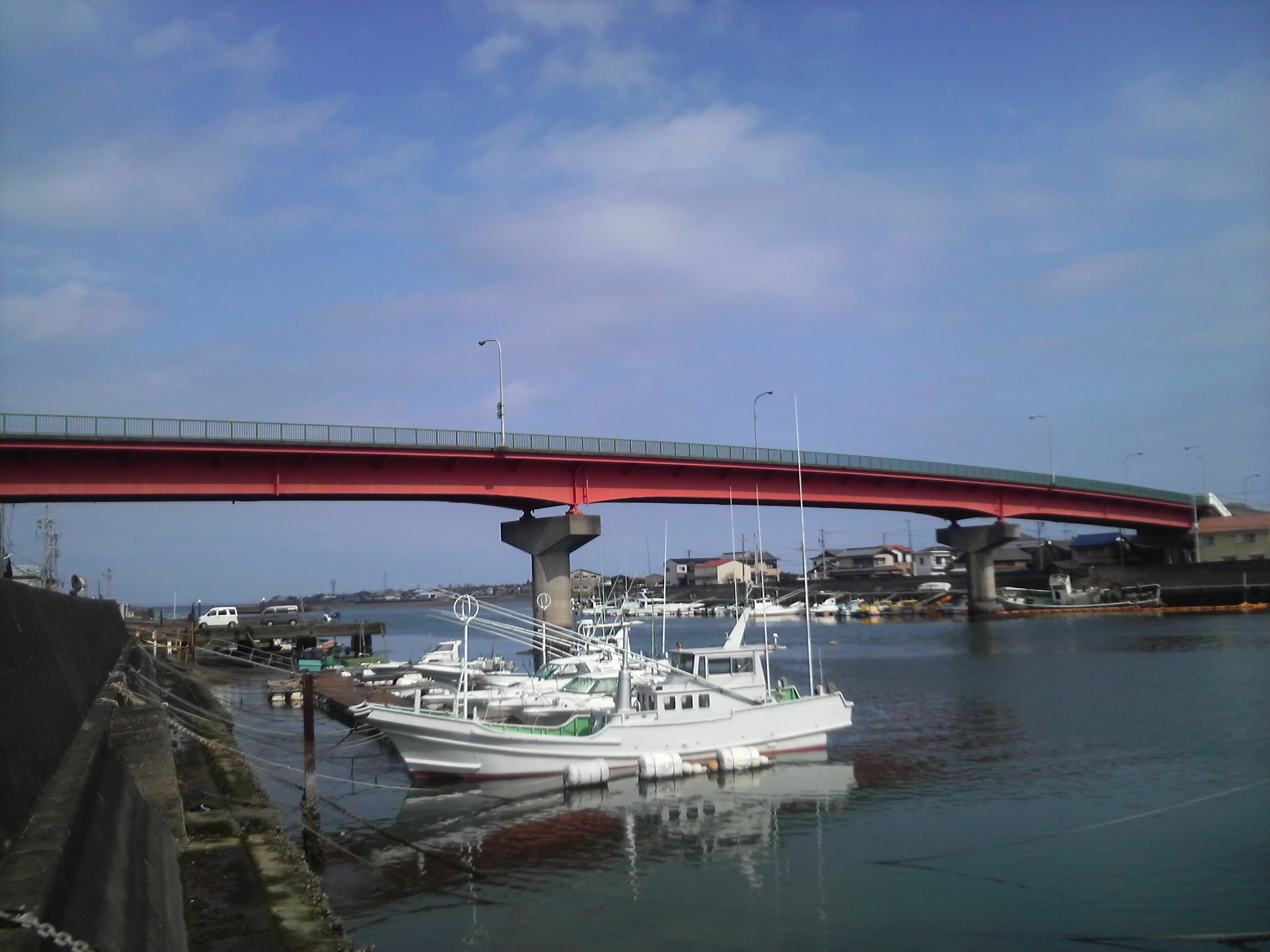 The Isshiki Bridge (Isshiki-ohashi) in Ise City, Mie Prefecture, Japan